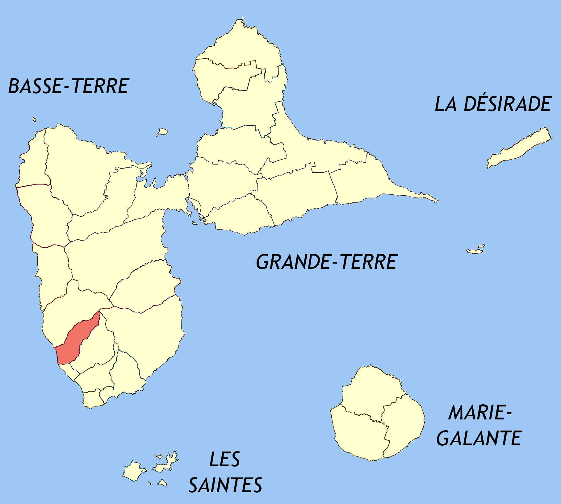 Created map myself